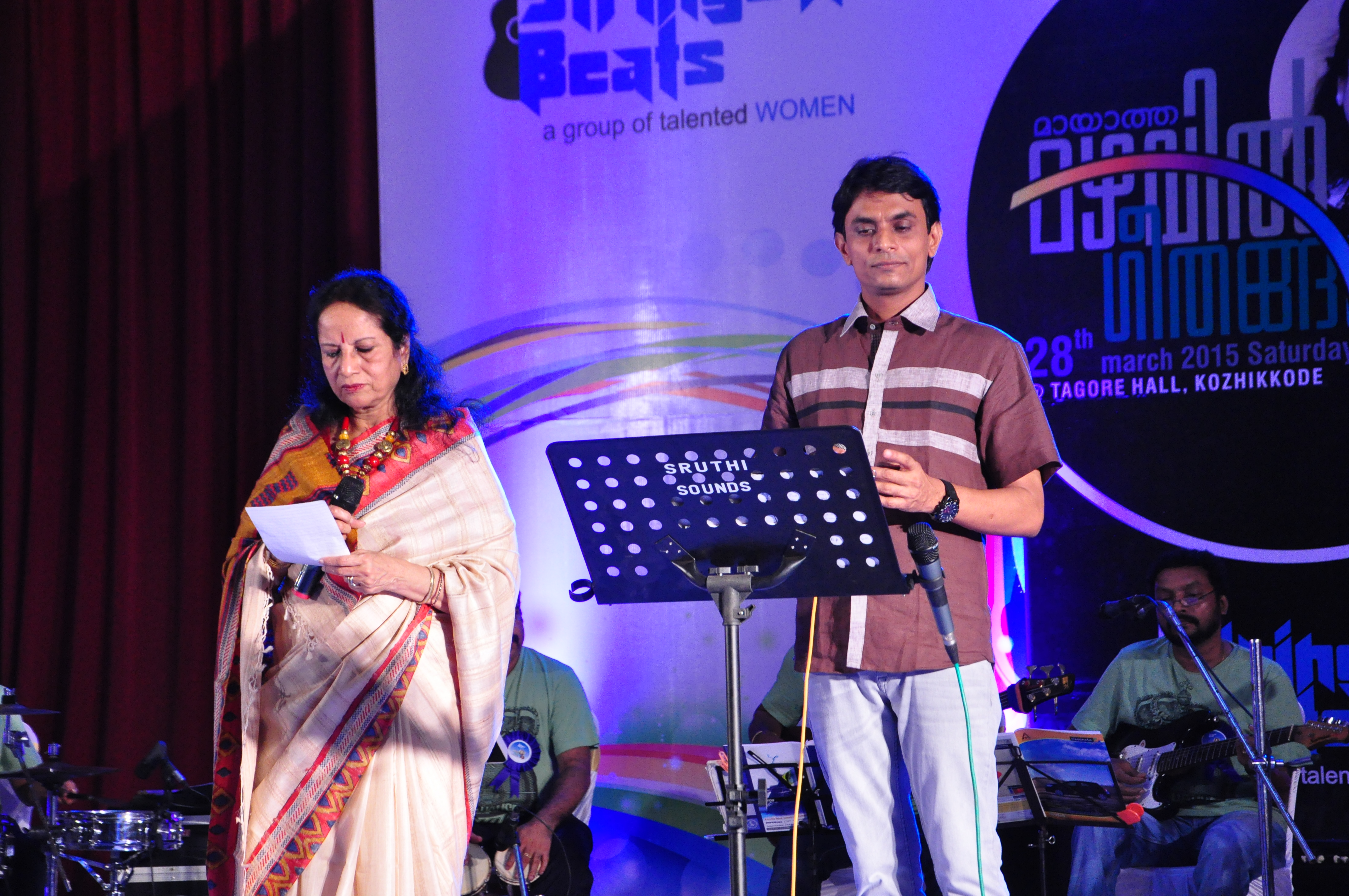 Uday Performing with Smt. Vani Jayaram